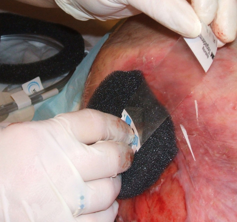 Application of a KCI Wound Vac dressing to a large wound